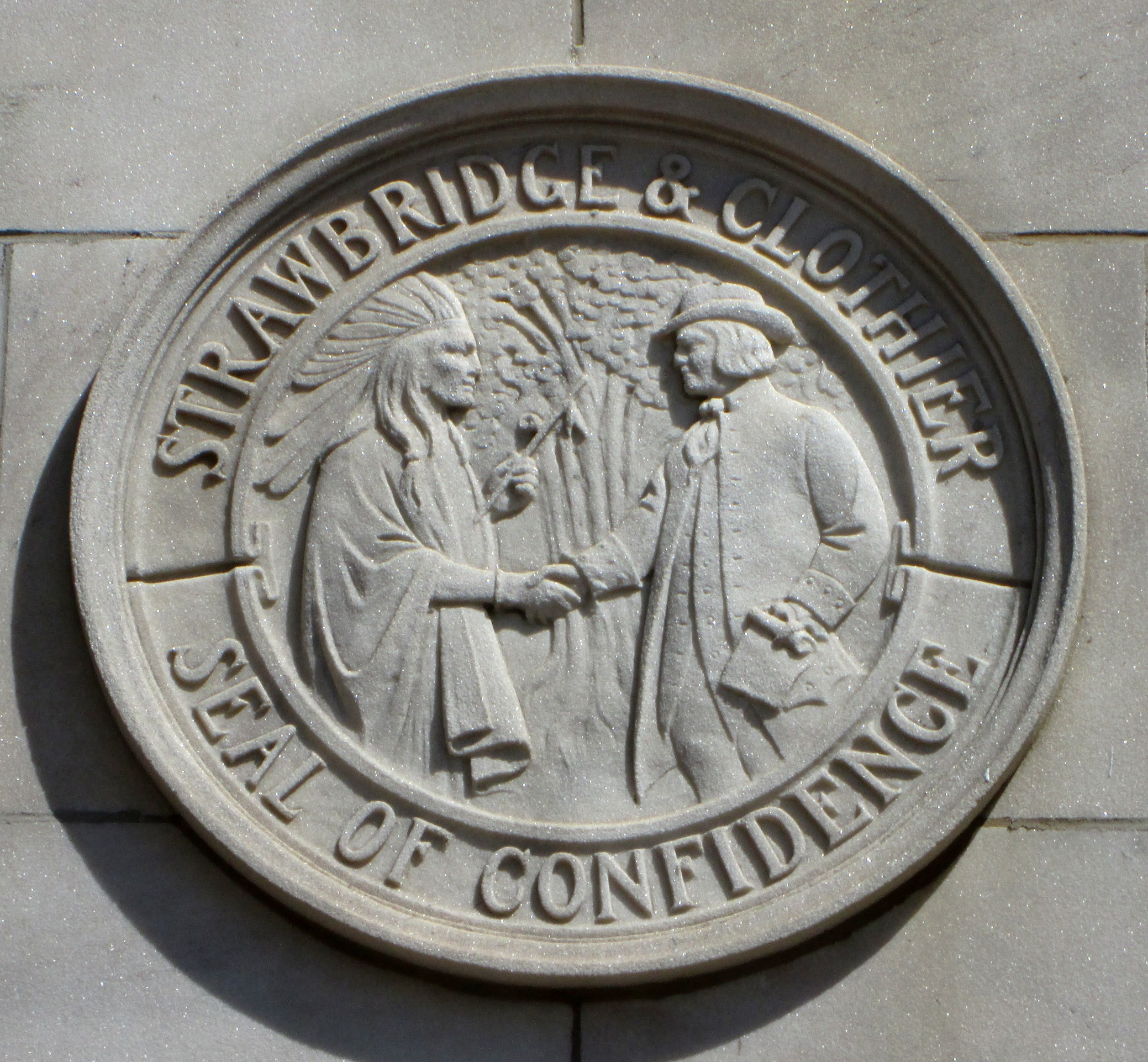 The Strawbridge & Clothier "Seal of Confidence", which flanks the entrance to the 1897 Renaissance Revival building designed by Addison Hutton on Market Street between N. 8th and 9th Streets in Center City, Philadelphia, just to the west of the 1931 Strawbridge & Clothier flagship building. The seal depicts William Penn and a Lenape Indian and their "never written, never broken" treaty, which enabled Penn to establish the colony of Pennsylvania and the city of Philadelphia on land which belonged to the tribe. The seal stood for Strawbridge & Clotier's Quaker-based tradition of fairness and honesty, which included a money-back guarantee on all merchandise. The seal was in use from 1911 until the company folded. (Source: "Buildings Then and Now: 'Think Strawbridge & Clothier first'")